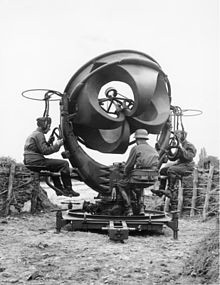 Sound equipment located in Germany, 1939 It consists of four acoustic horns, a horizontal pair and a vertical pair connected by rubber tubes with a stethoscope type headphones, which are worn by two members of the technical staff - the left and the right. Stereo headphones allowed one technical specialist to determine the direction and the other altitude of the aircraft.